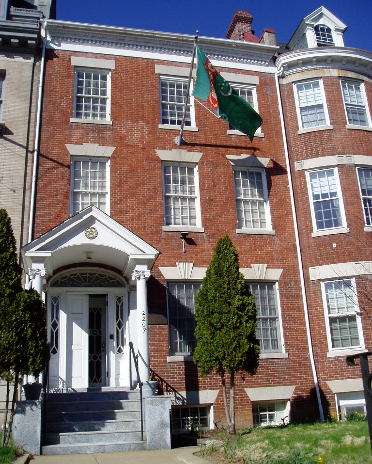 Embassy of Turkmenistan, Washington, D.C.